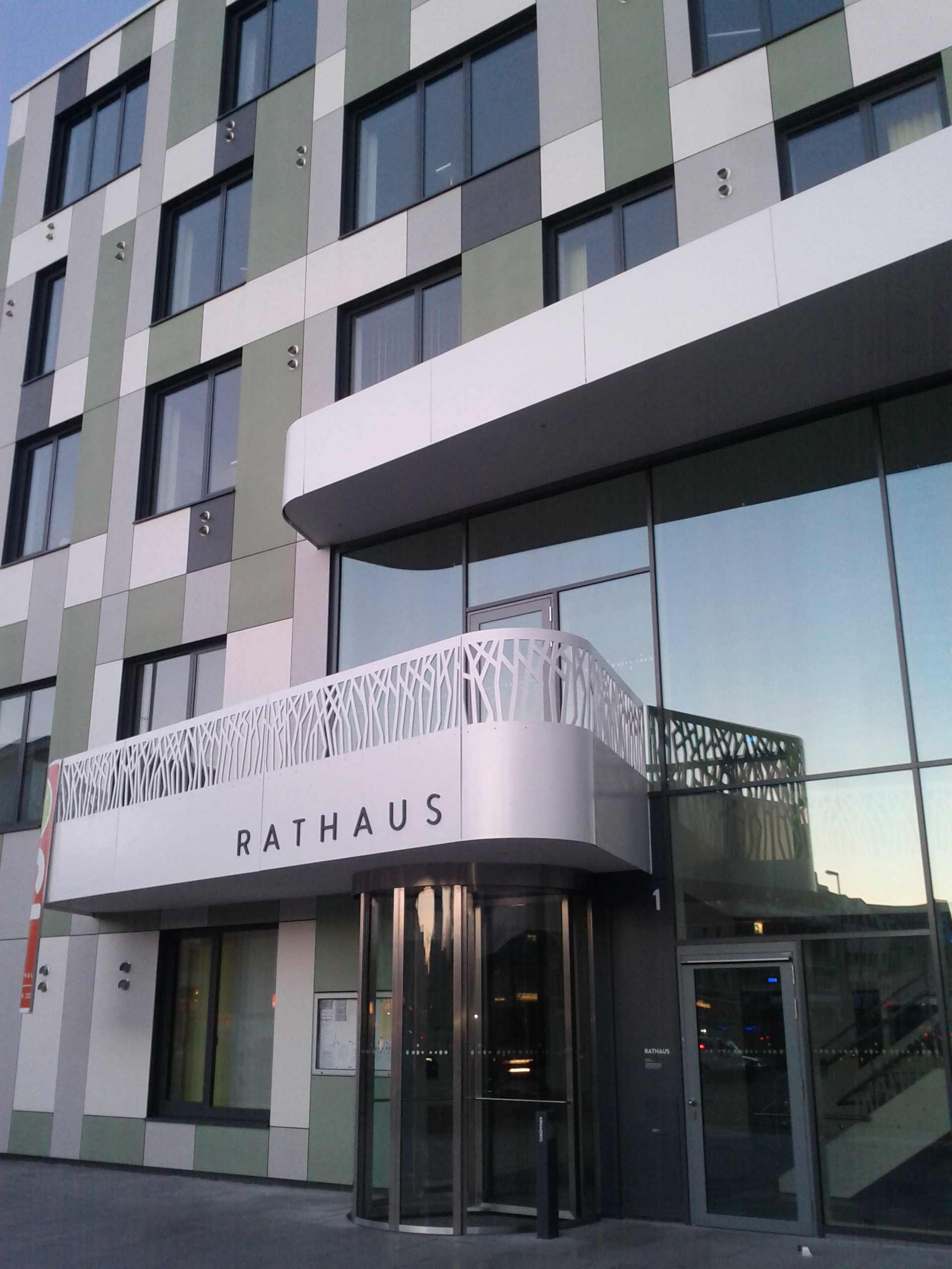 Entrance area of the new town hall of Kolbermoor.